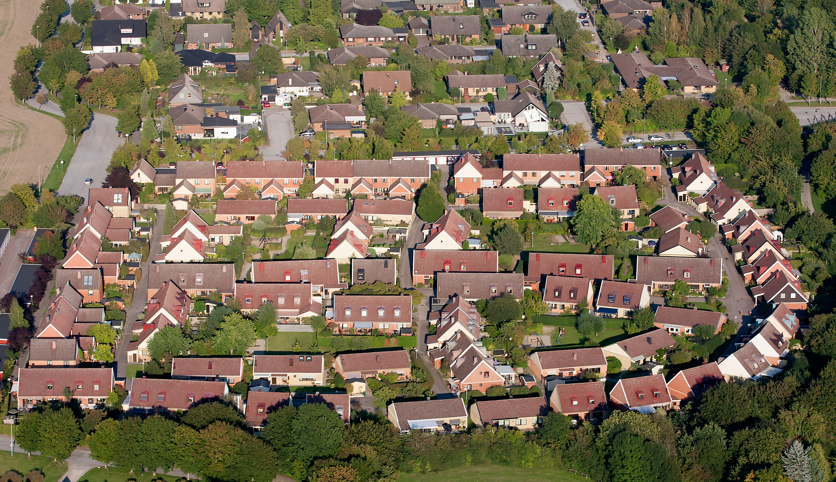 Nöbbelöv neighbourhood in Lund, Sweden.